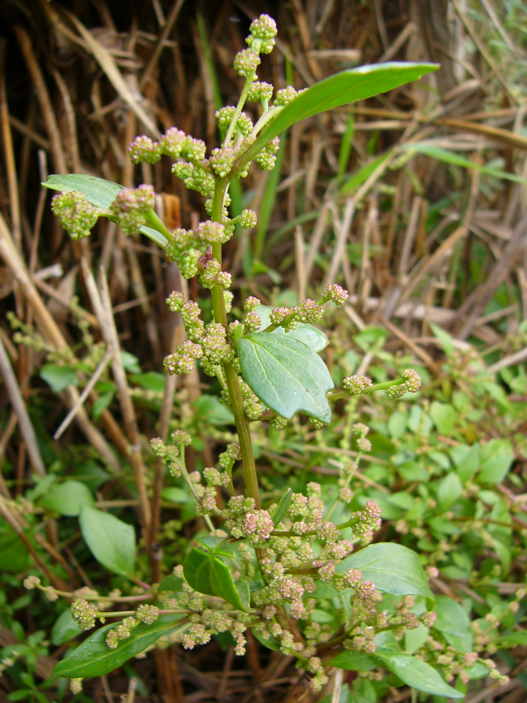 A high-resolution image of a Chenopodium chenopodioides plant showing flowers, leaves, and stems for use in the article.